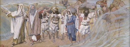 The Waters Are Divided, c. 1896-1902, by James Jacques Joseph Tissot (French, 1836-1902), gouache on board, 4 x 11 1/8 in. (10.3 x 28.3 cm), at the Jewish Museum, New York